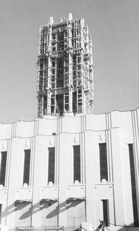 We see the structure of the tower of the University of Montreal.